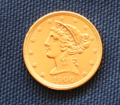 5$ Goldcoin USA 1900